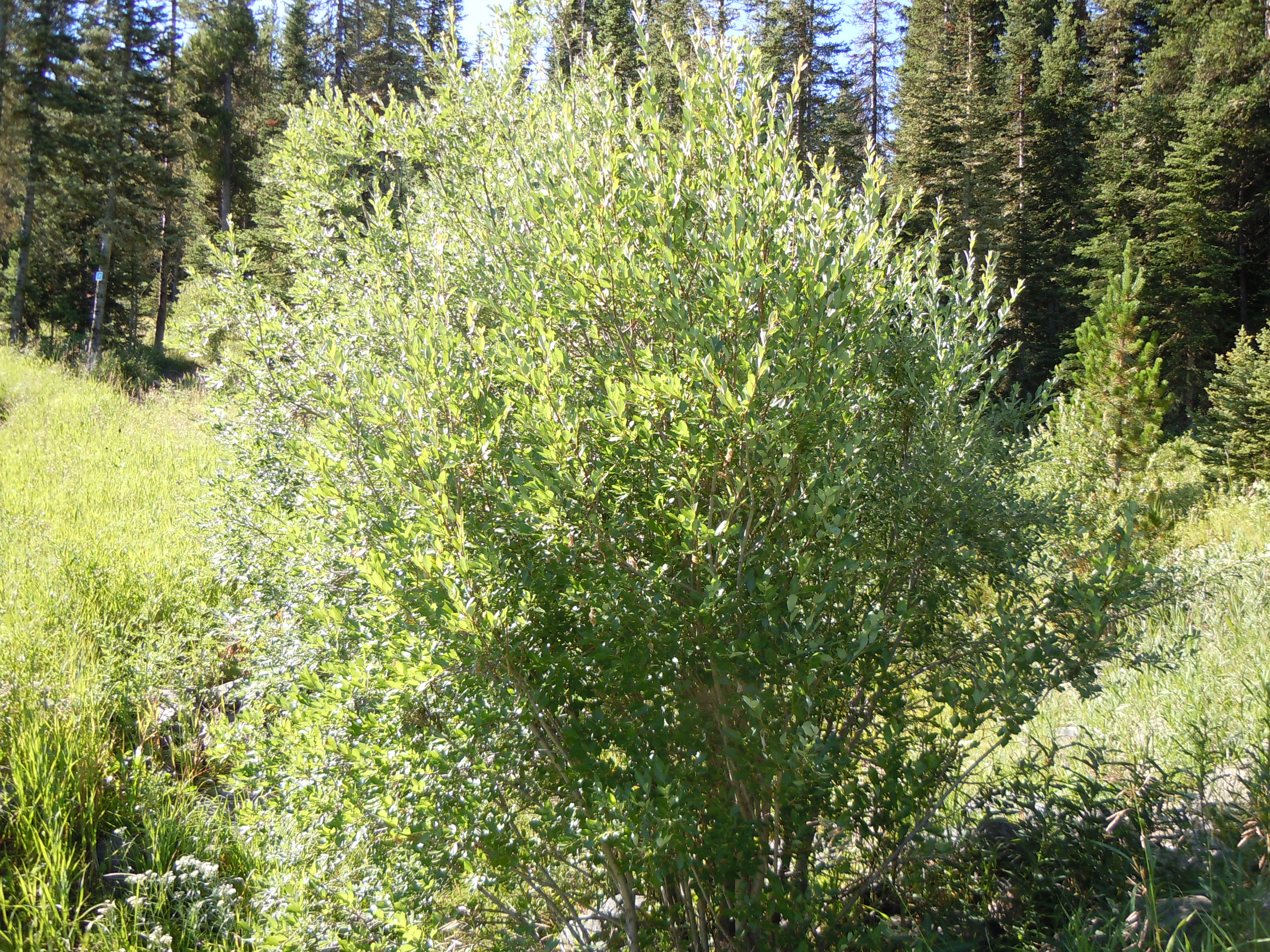 Bebb's willow usually inhabits wet sites in or near the mountains.